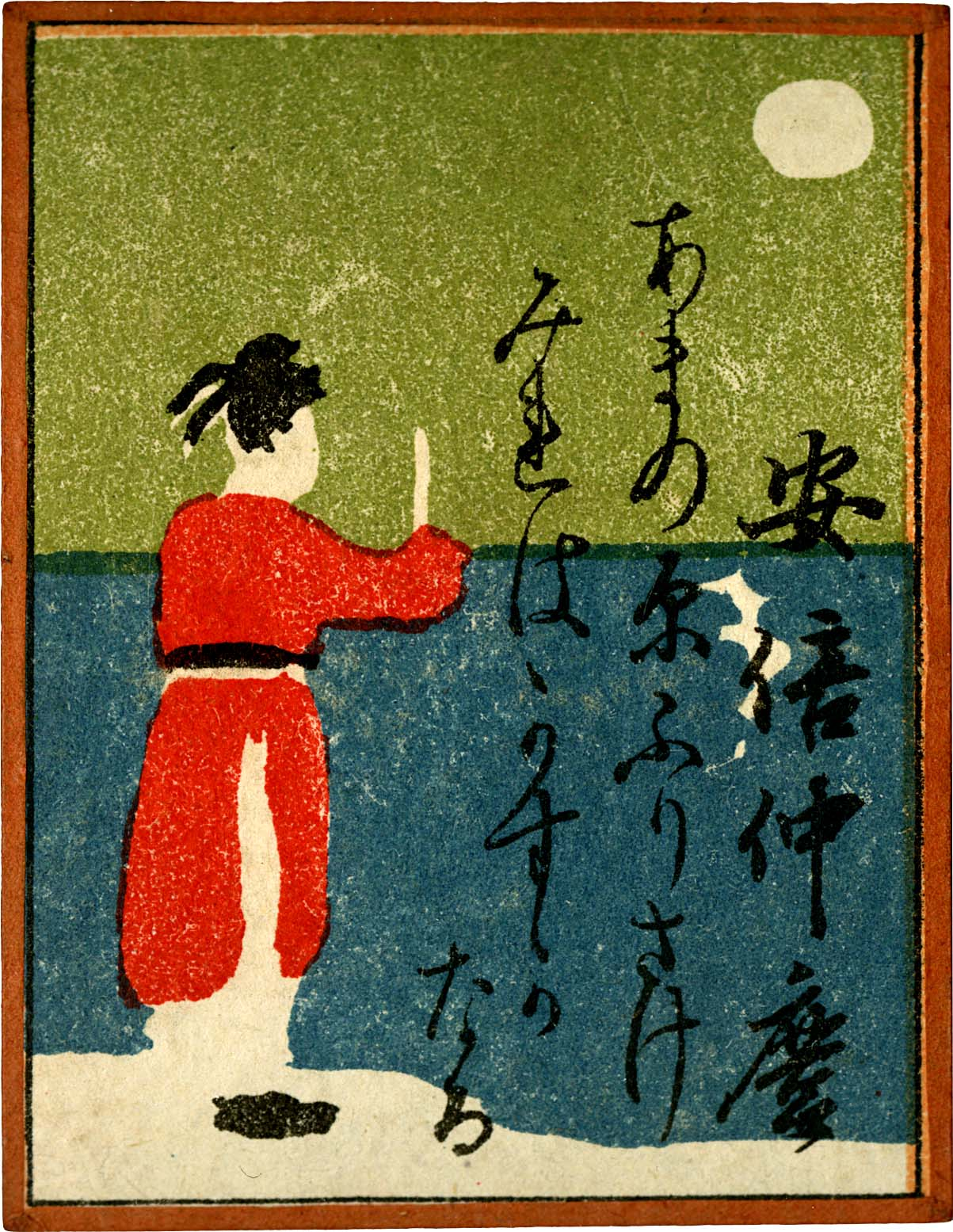 Reminder: No known copyright restrictions. Please credit UBC Library as the image source. For more information see Japanese Title: 百人一首 [小倉百人一首] Date: Meiji 42 [1909] Creator: Nakamura fusetsu k_an Access Identifier: Mostow_056 Source: Original Format: Professor Joshua Mostow Private Collection. One Hundred Poets (Hyakunin isshu) Collection. Permanent URL